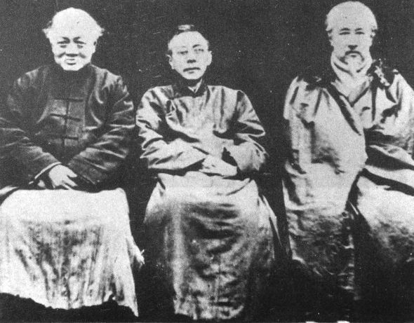 Wu Zhihui Zhang Jingjiang Li Shizeng Xin Shijie Society Leaders Other information depicts leaders in Paris, which they left before 1911